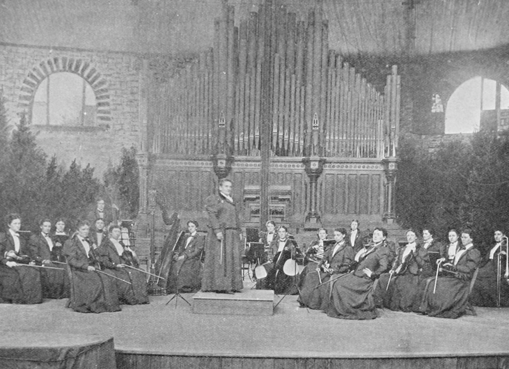 Group photo of Fadettes of Boston